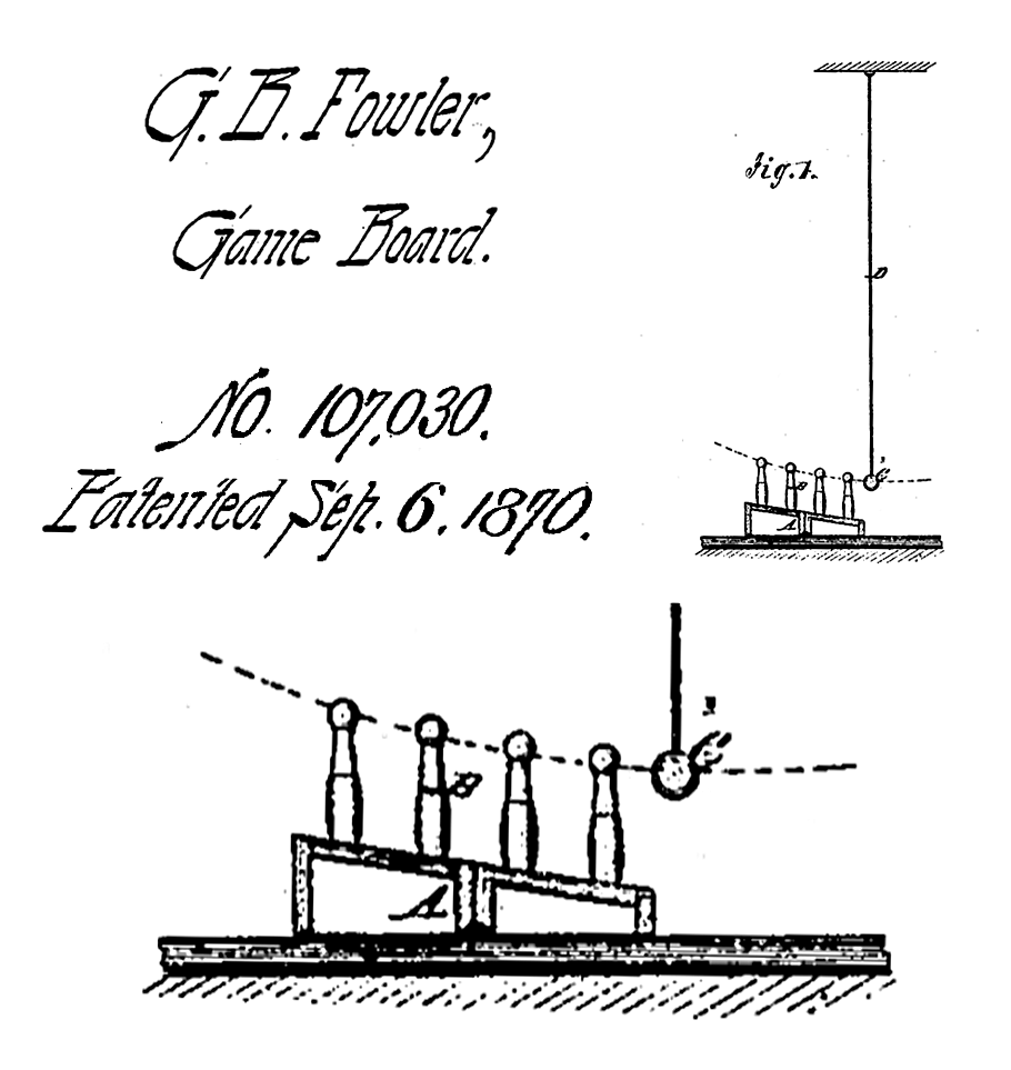 Assembled clippings from front page of U.S. patent 107,030, "Game Board" or "Game-Box For Ten-Pins". Ball suspended from rope swings to knock over ten-pins on an inclined platform.